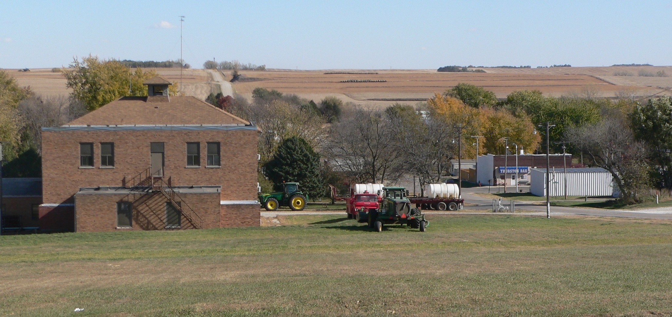 Thurston, Nebraska; seen from the west.